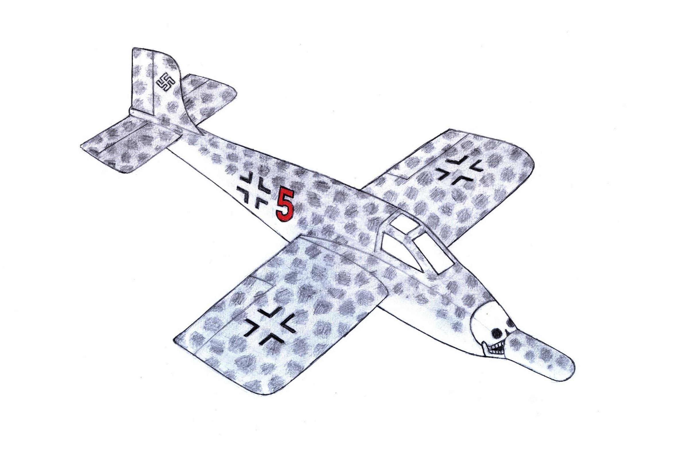 Pencil drawing of the Zeppelin rammer